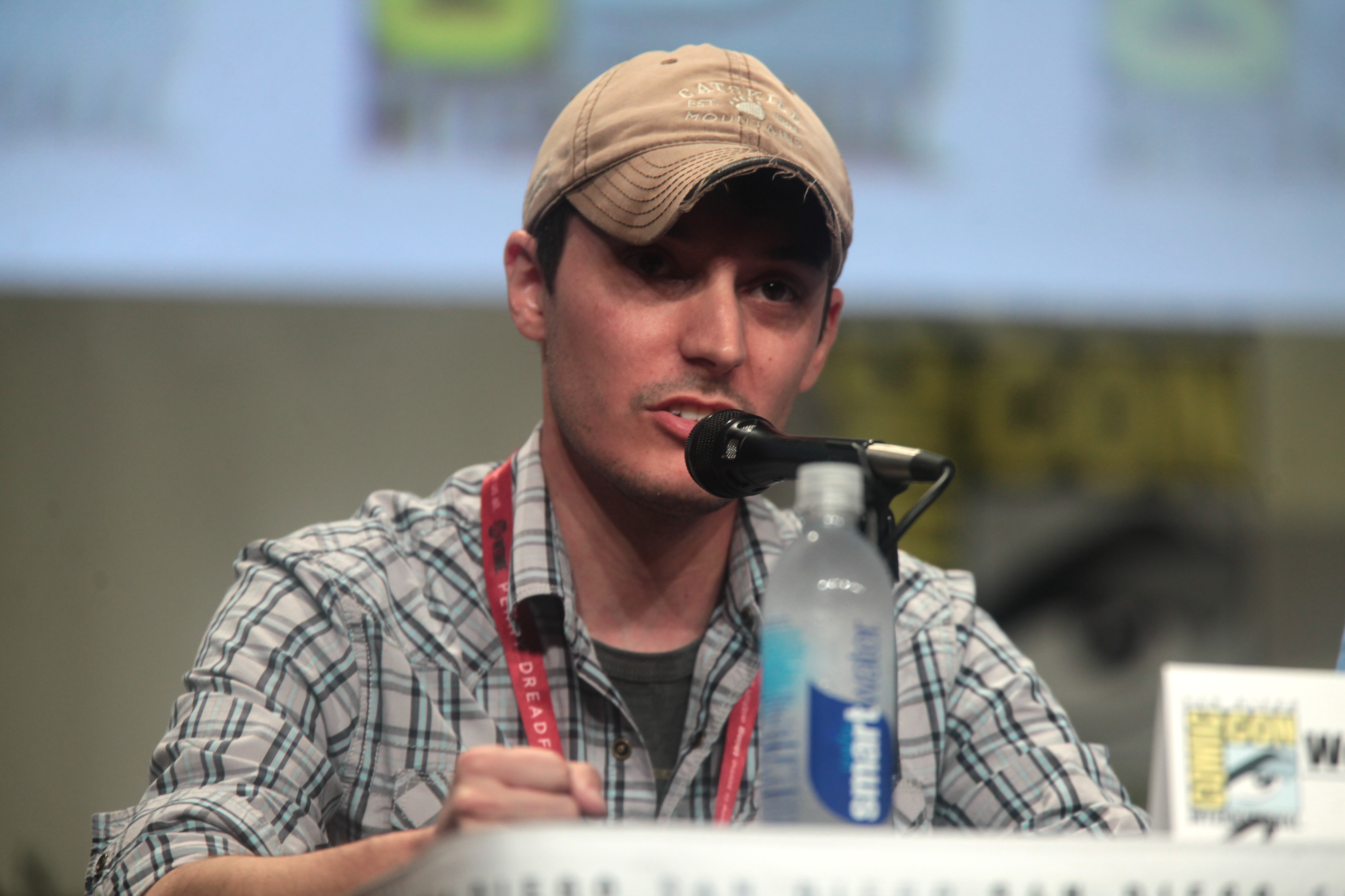 Wes Ball speaking at the 2014 San Diego Comic Con International, for "The Maze Runner", at the San Diego Convention Center in San Diego, California.